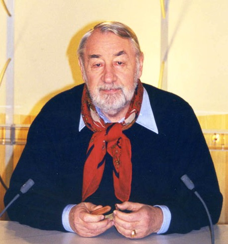 Actor Phillipe Noiret on the set of I-Télé television, 10 January 2000